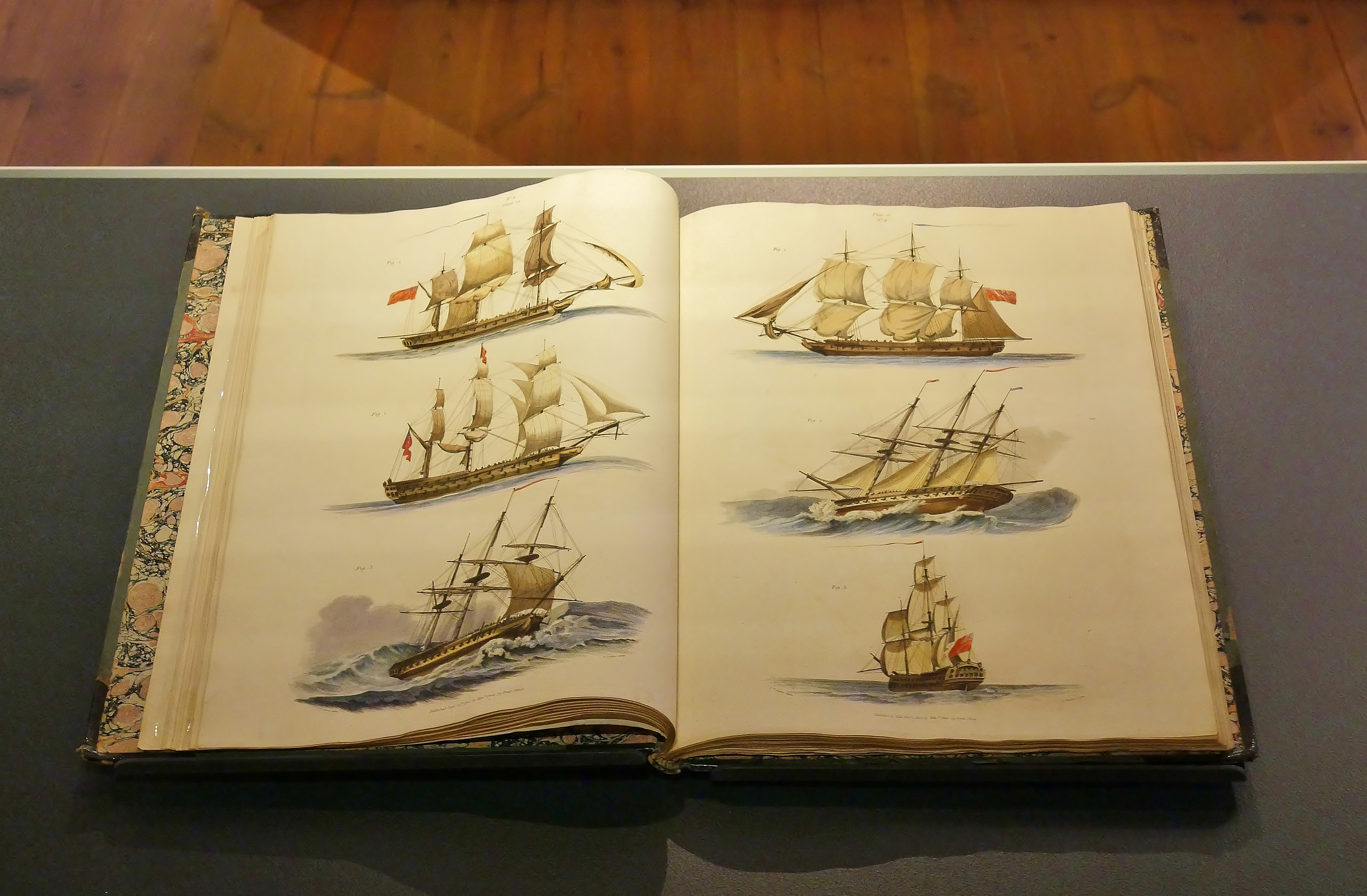 Liber Nauticus, a sketchbook of marine arts, edited by John Thomas Serres